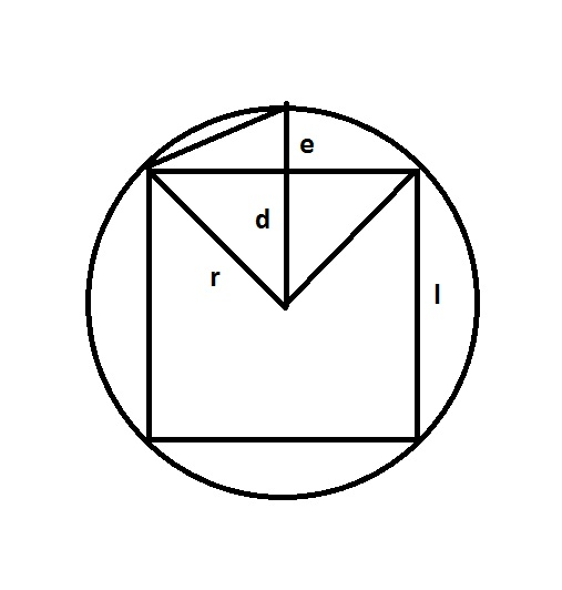 Zhou Youqin Pi algorithm